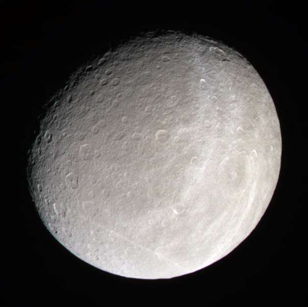 Cassini color image of Rhea, showing the wispy trailing hemisphere.